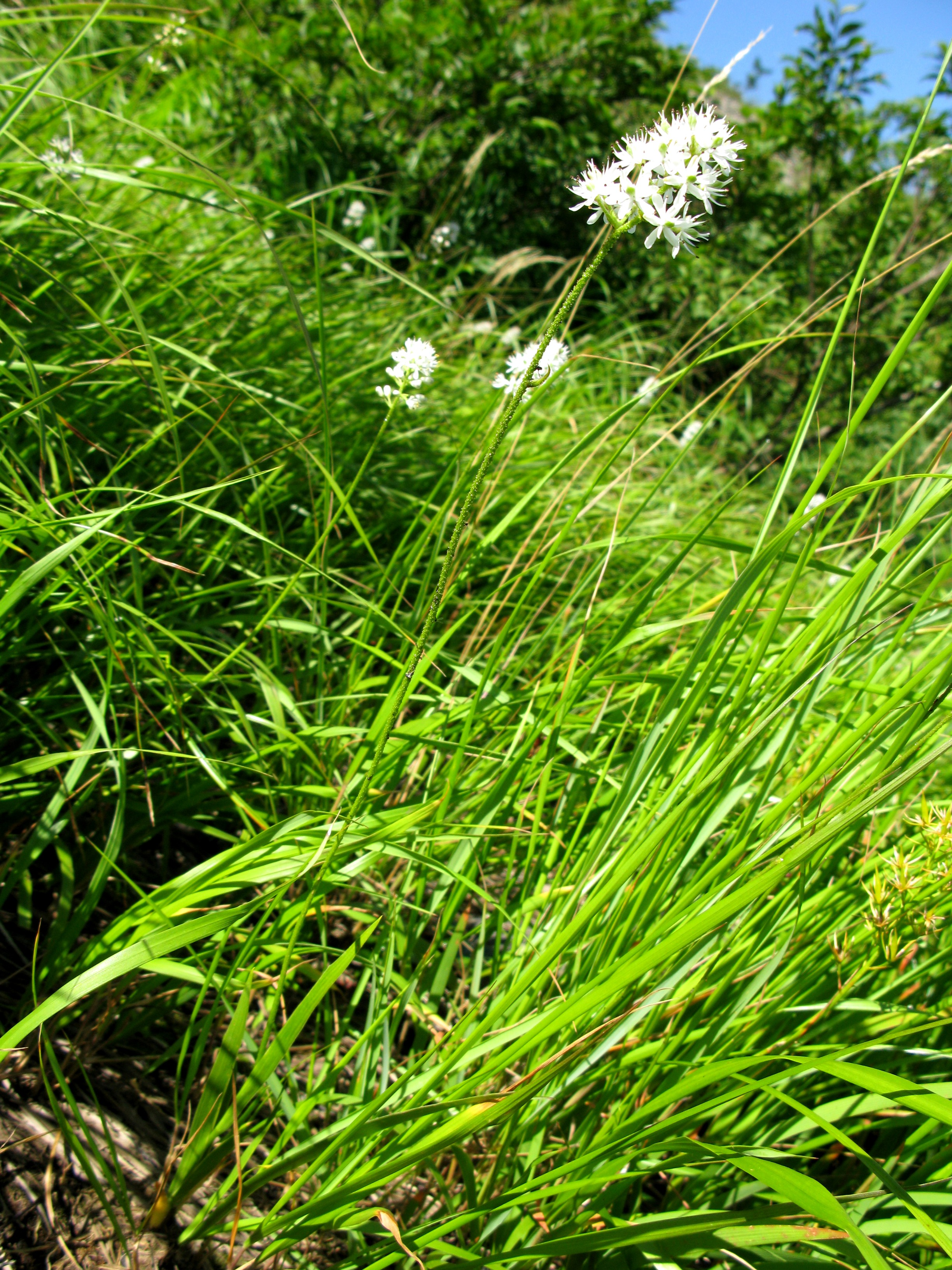 Tofieldia glutinosa subsp. japonica,Aizu area,Fukushima pref,Japan